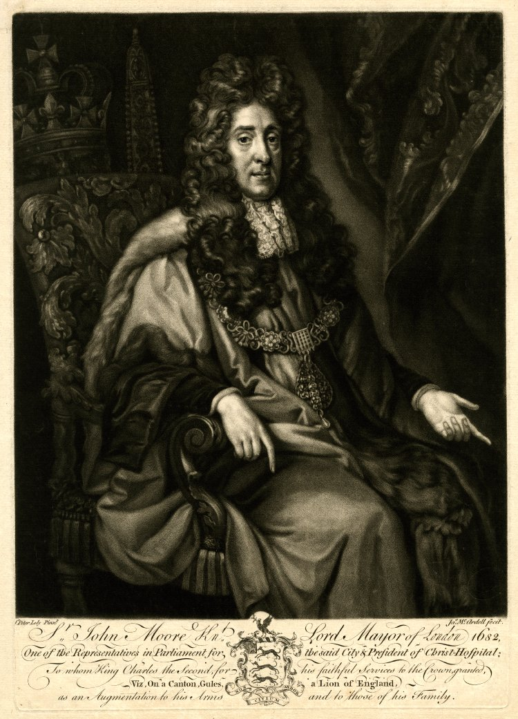 "Sir John Moore Knt Lord Mayor of London," mezzotint, by James Macardell, after a portrait by Sir Peter Lely. 357 mm x 255 mm. Courtesy of the British Museum.